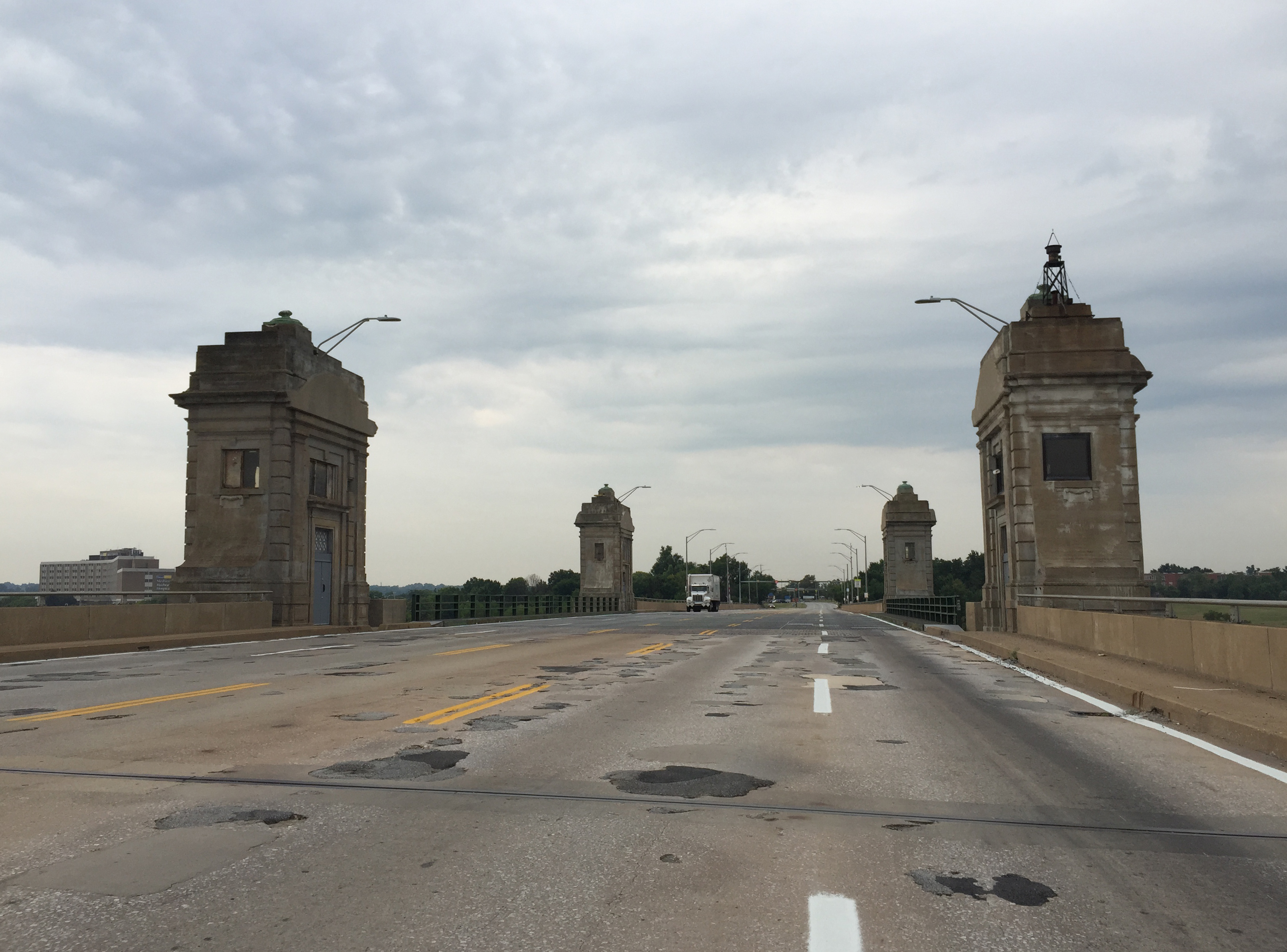 View south along Maryland State Route 2 (Hanover Street Bridge) crossing the Middle Branch Patapsco River in Baltimore City, Maryland